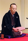 Utamaru Katsura, President of the Rakugo Art Association, performed rakugo in Delhi National Capital Territory on November, 2007.